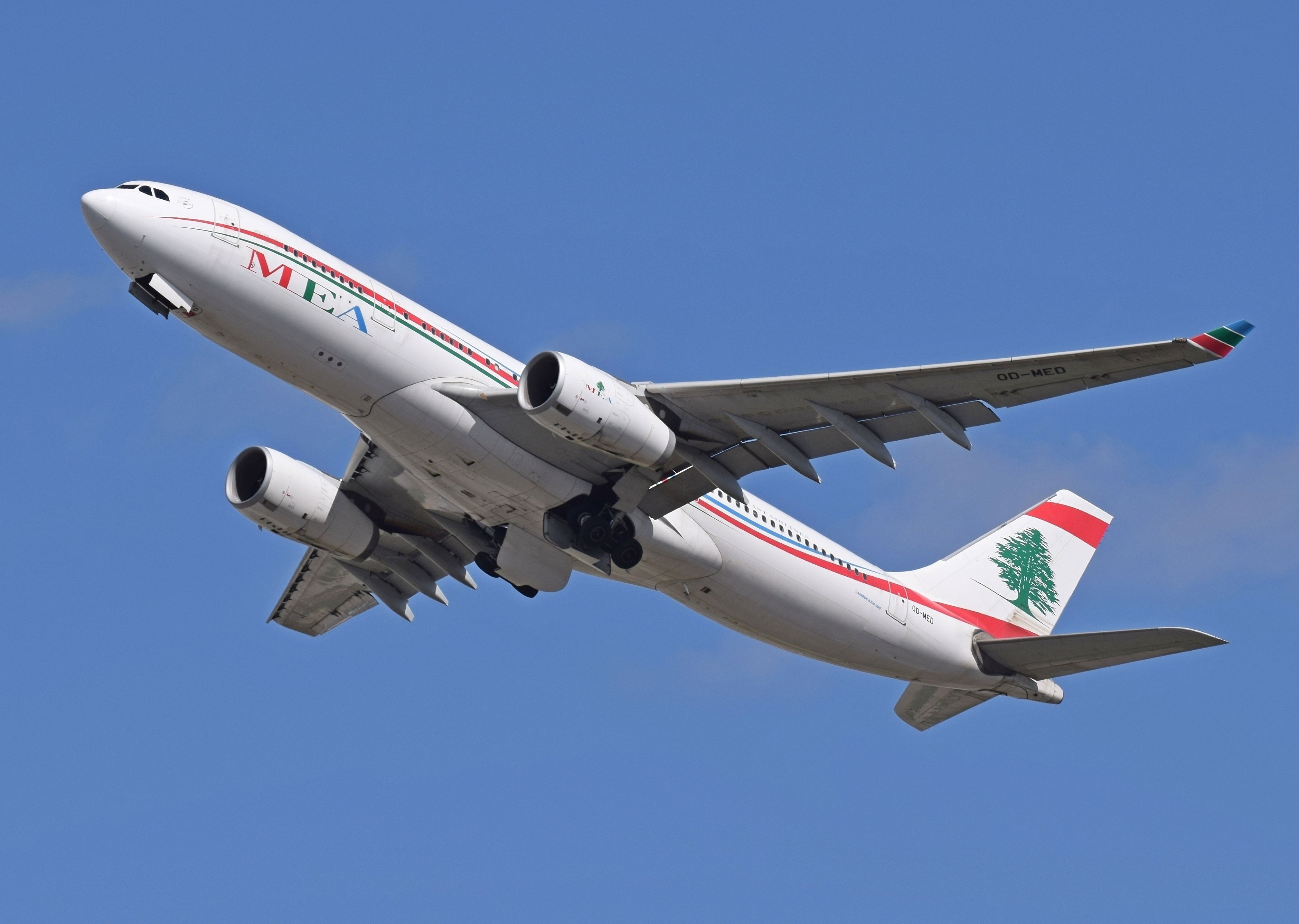 MEA Airbus A330-200 (OD-MED) departs London Heathrow Airport, England, from runway 27L. The undercarriages are retracting.